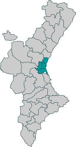 Localisation of the Horta de València in the Land of Valencia with que comarcal borders